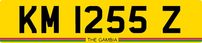 License plate from Gambia